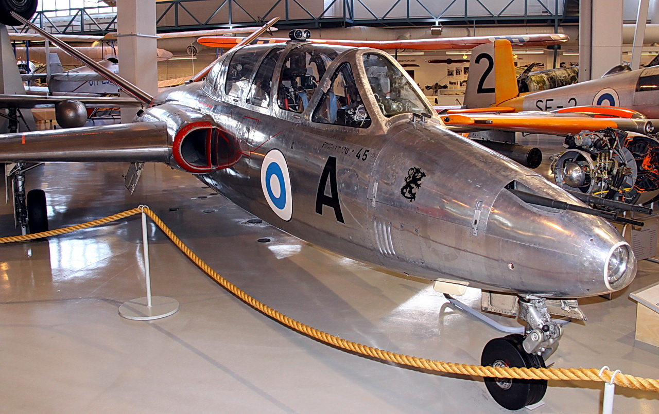 Fouga CM 170 Magister (FM-45) in Aviation Museum of Central Finland.